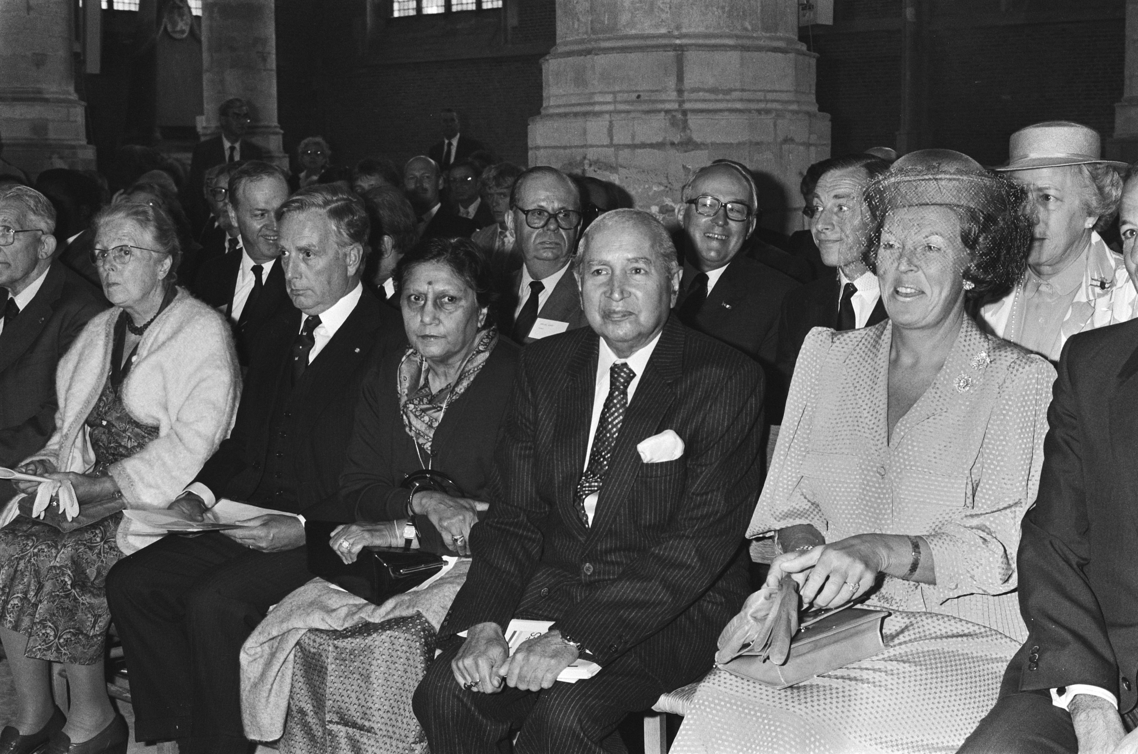 Congress of the International Association of Lawyers (UIA) in Den Haag 1985. From right to left: Queen Beatrix of the Netherlands, Nagendra Singh (president of the International Court of Justice), Mrs. Singh, Frits Korthals Altes (Dutch Minister of Justice).